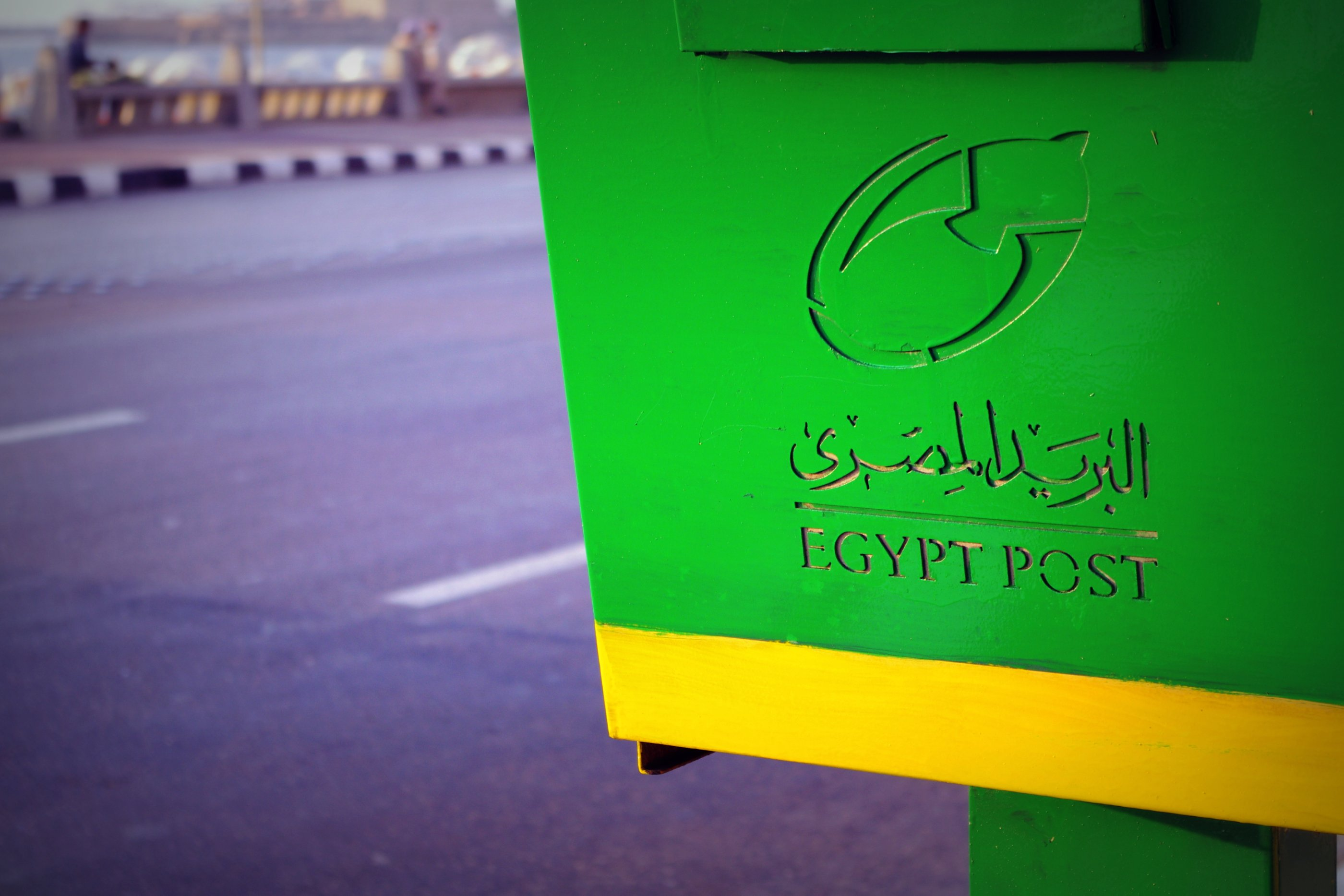 Post box